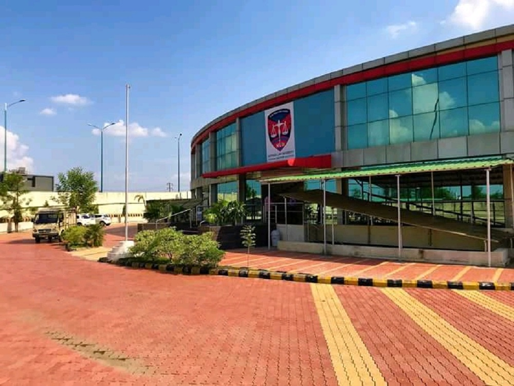 The temporary Academic Block